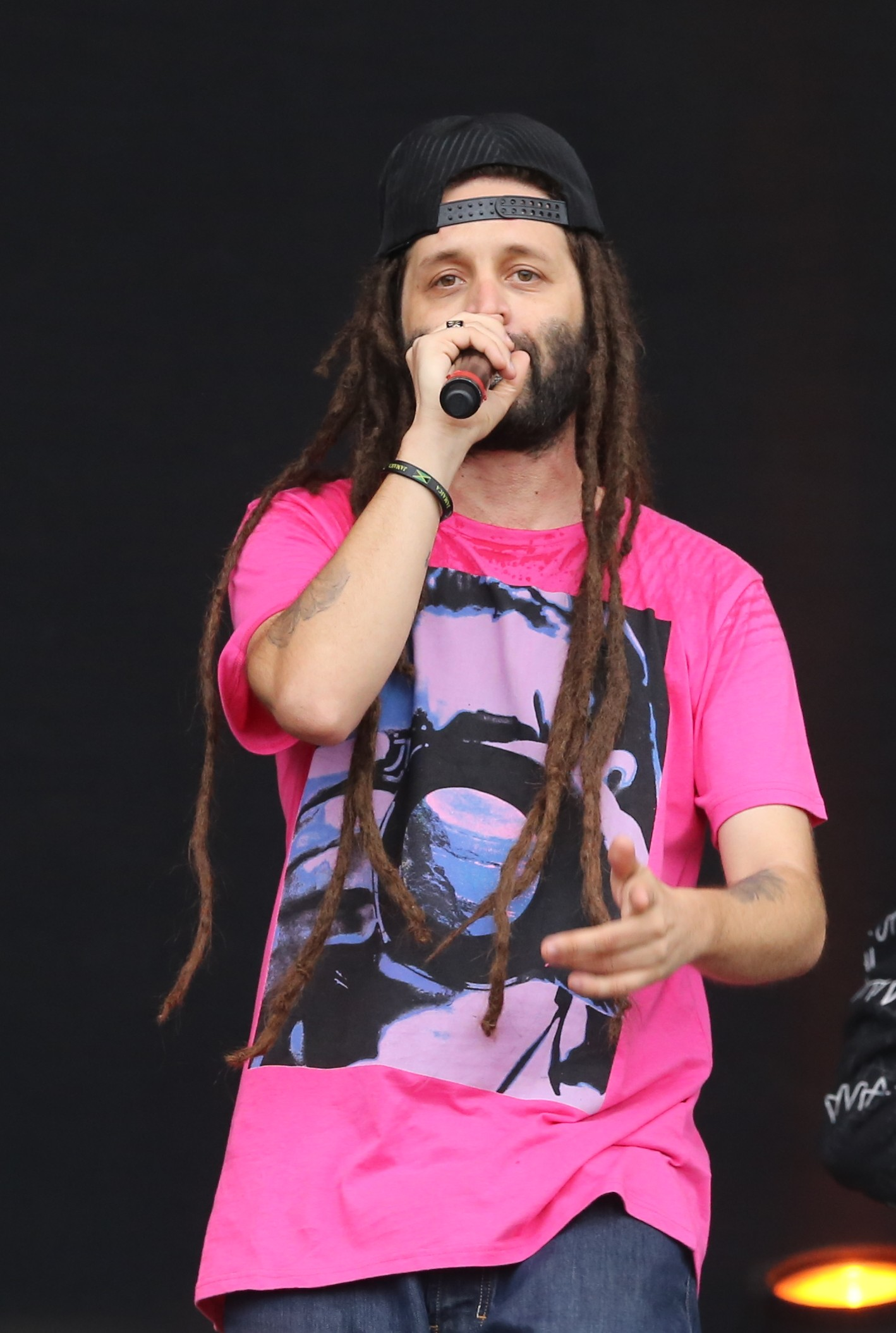 Alborosie & The Shengen Clan at Chiemsee Reggae Summer Festival 2013